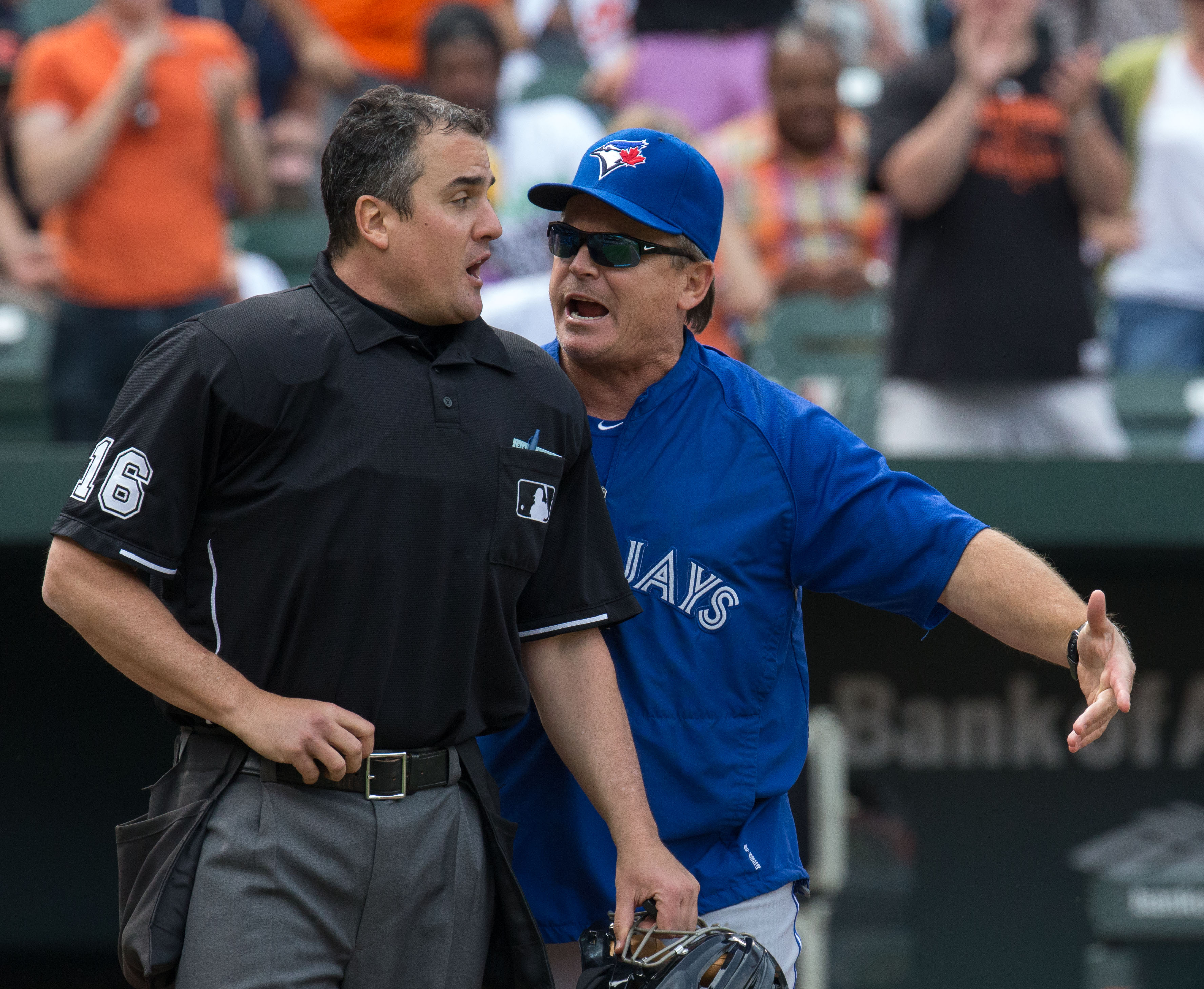 Toronto Blue Jays manager John Gibbons argues with umpire Mike DiMuro.